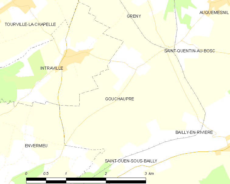 Map of French municipality Gouchaupre